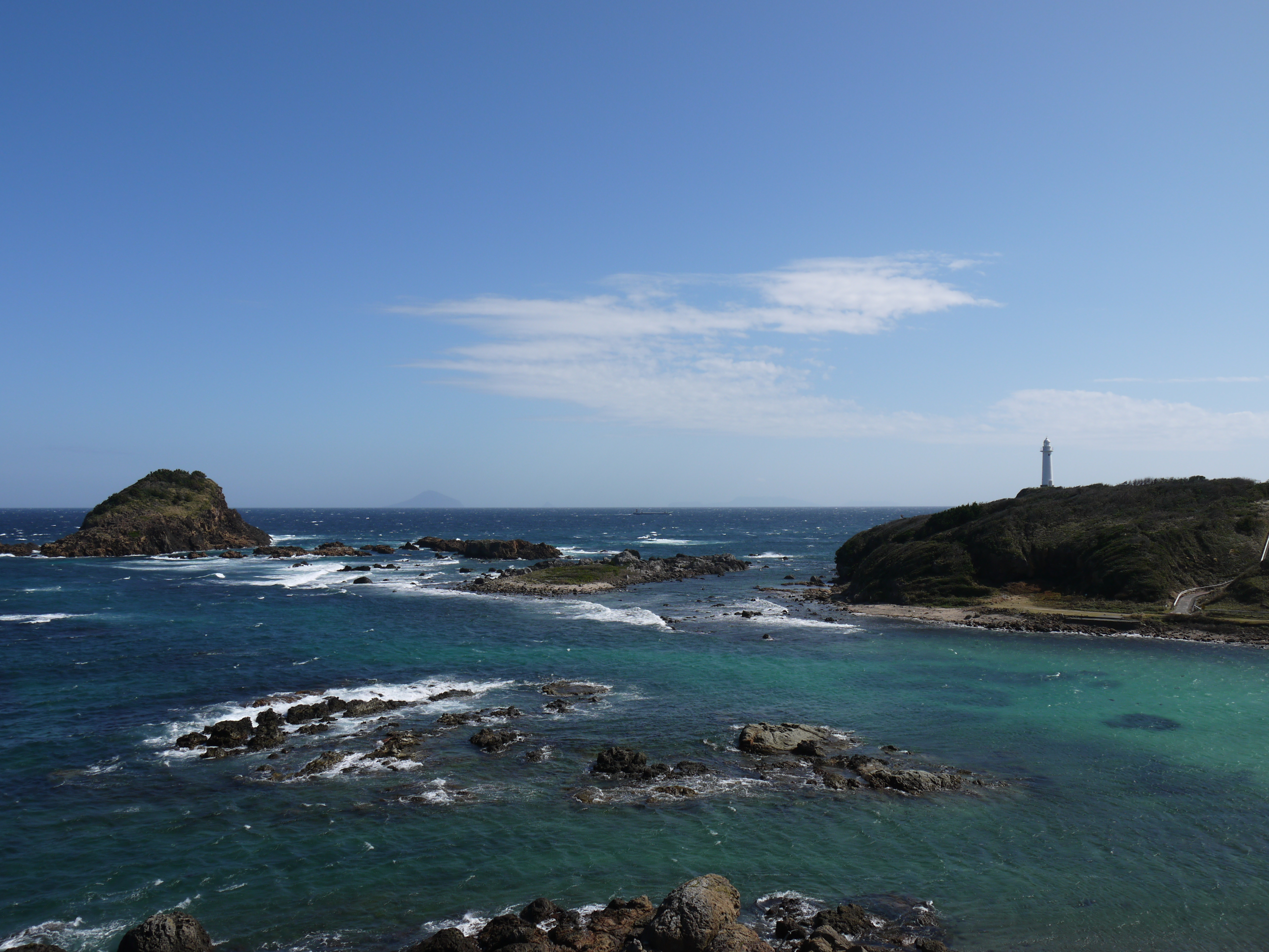 Cape Tsumeki in Shimoda, Shizuoka Pefecture, Japan. Tsumekisaki lighthouse on the right.